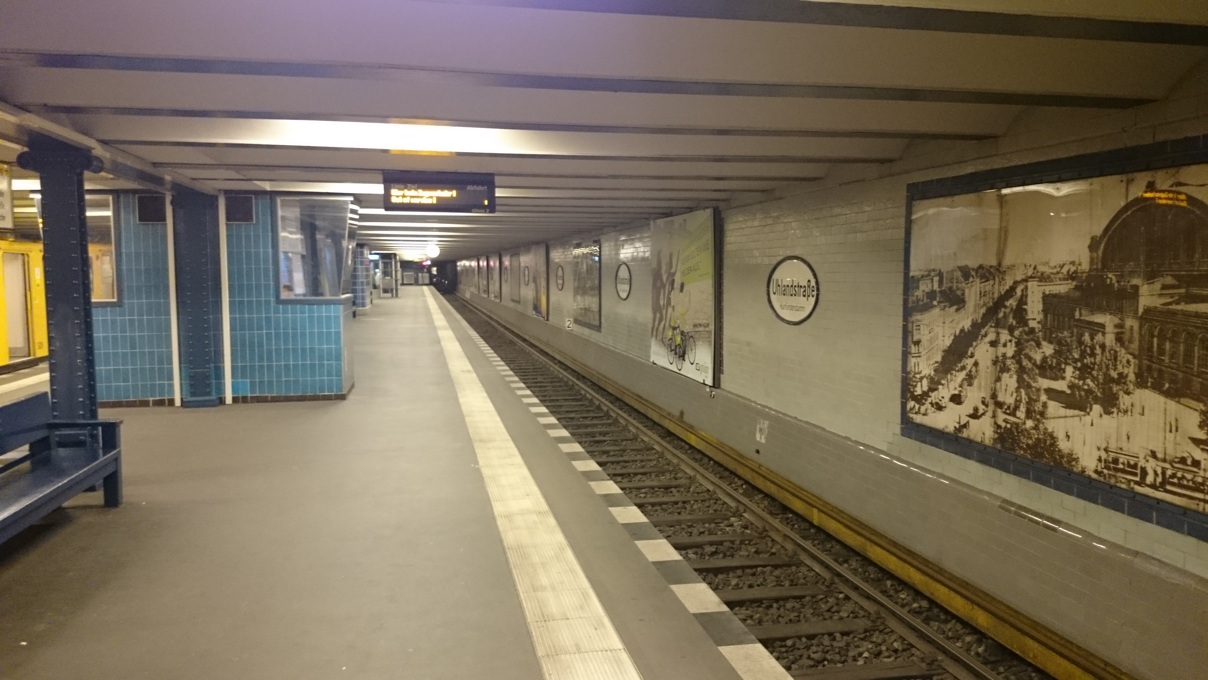 An empty track at Uhlandstraße station in Berlin U-Bahn